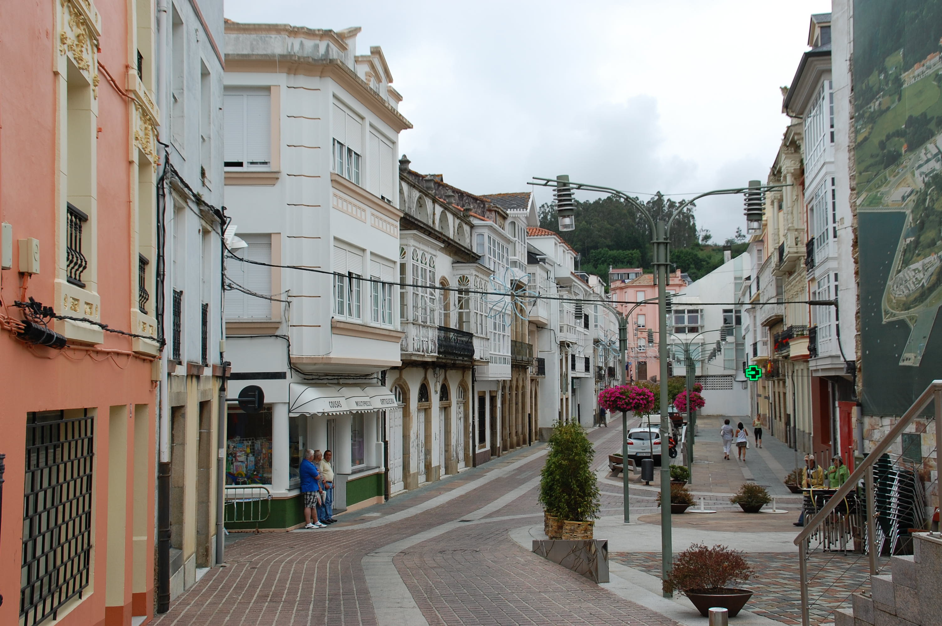 Eusebio Davila Promenade in Ortigueira, Galicia, Spain.